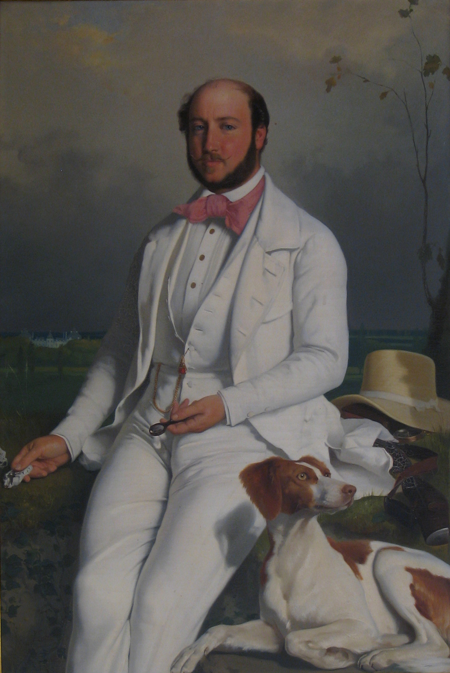 Portrait of the French amateur archaeologist Paul Hurault, 8th Marquis de Vibraye. On display at Château de Cheverny, Loir-et-Cher, France